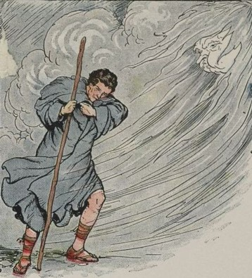 The North Wind and the Sun - The wind attempts to strip the traveler of his cloak. From The Æsop for Children, by Æsop, illustrated by Milo Winter